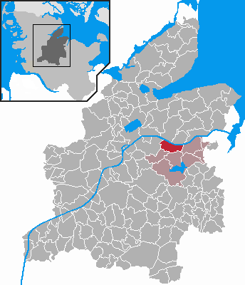 Locator maps of municipalities in Schleswig-Holstein - District Rendsburg-Eckernförde